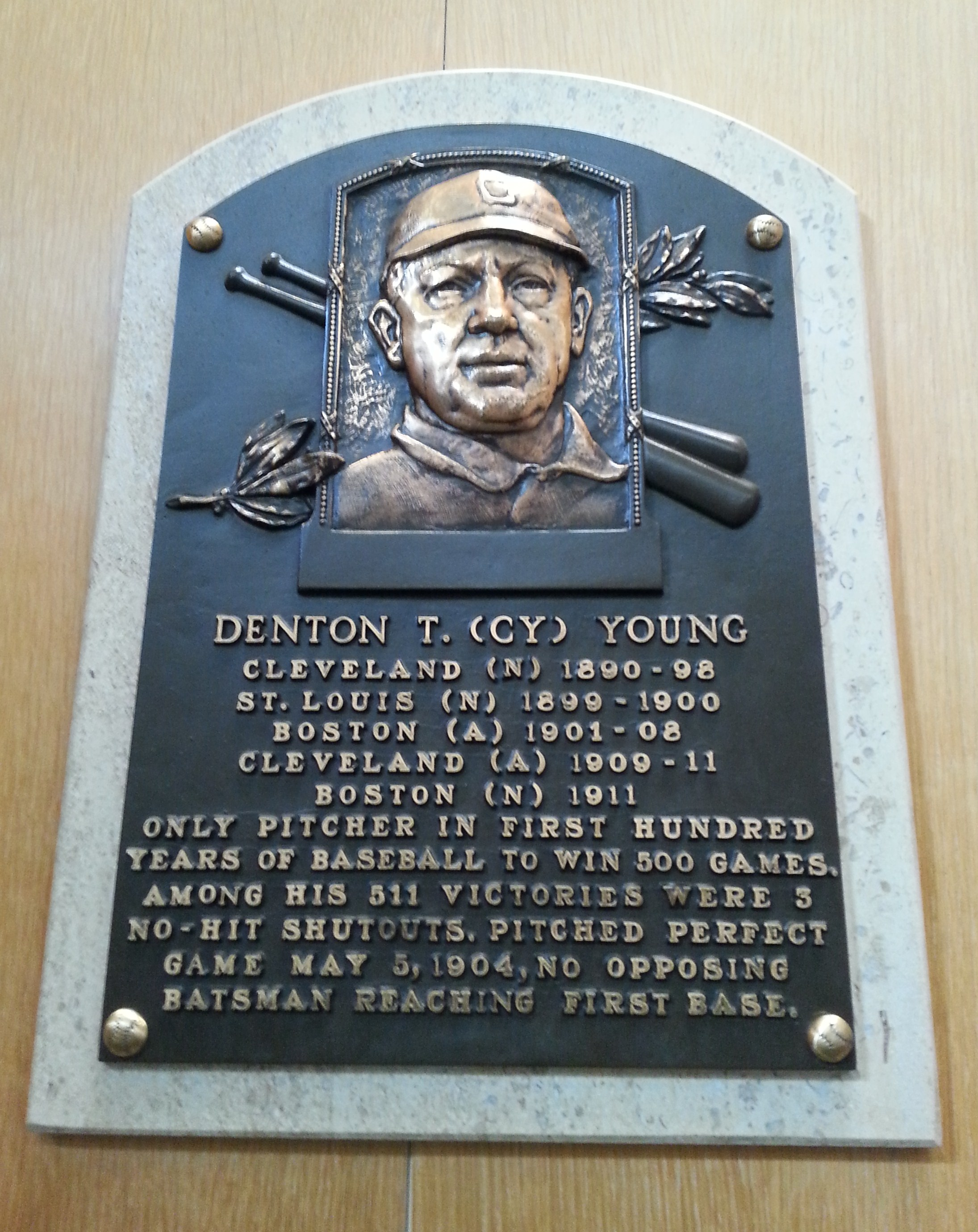 Cy Youngs's plaque in the National Baseball Hall of Fame